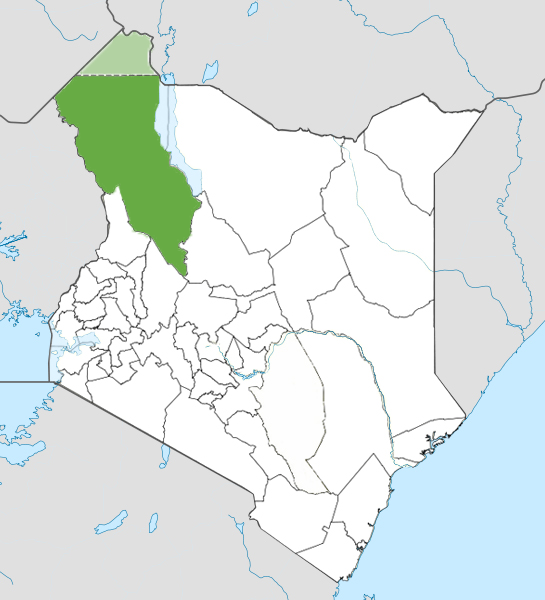 Location of Turkana County